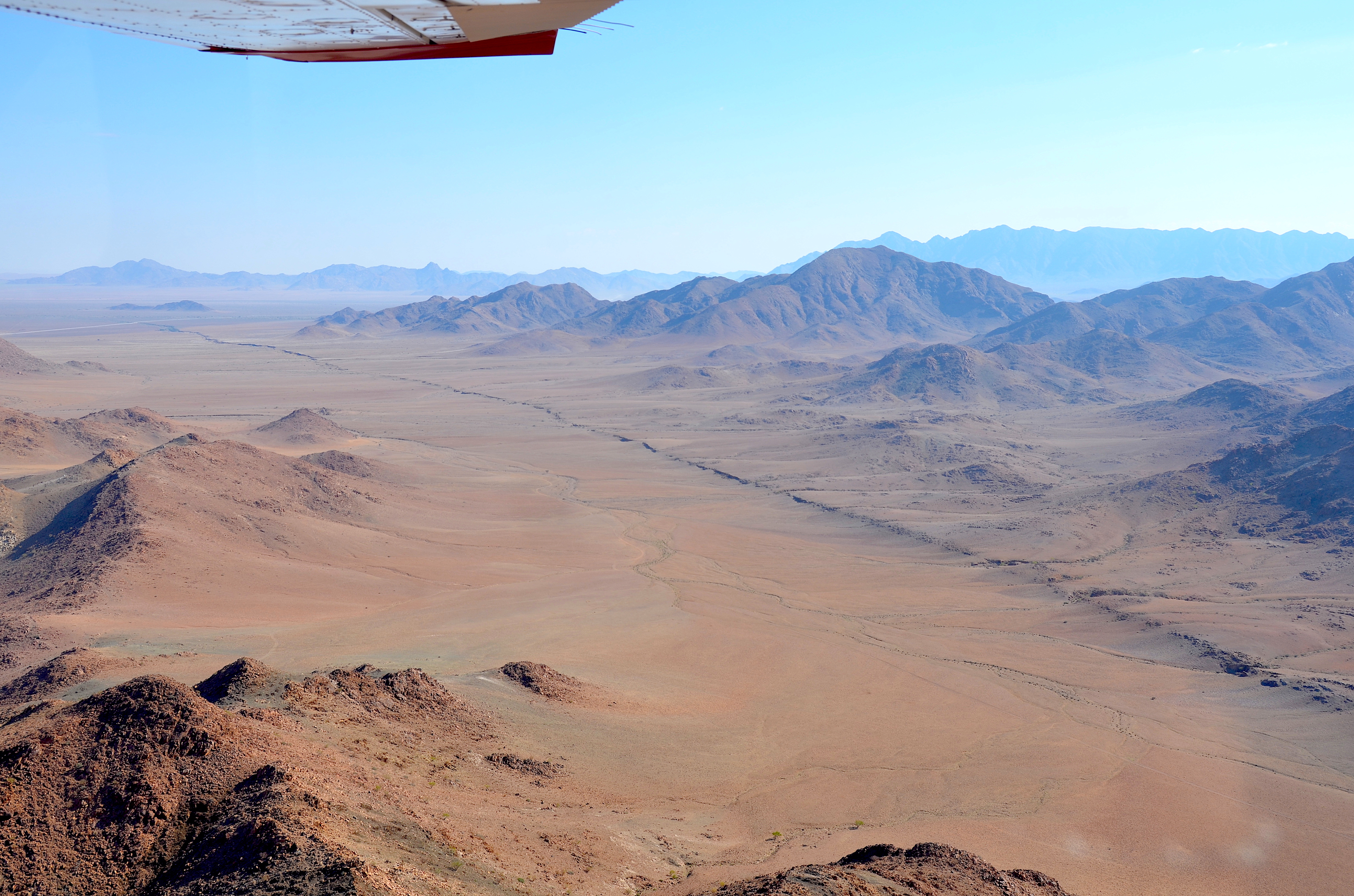 Hebron Fault in Namibia (2017)